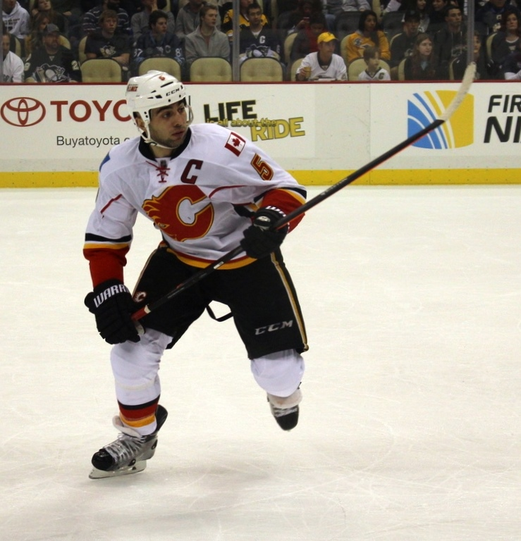 Defenseman Mark Giordano, newly named captain of the Calgary Flames prior to the start of the 2013-14 season, skates against the Penguins during a December 21, 2013, game at Consol Energy Center in Pittsburgh, PA.